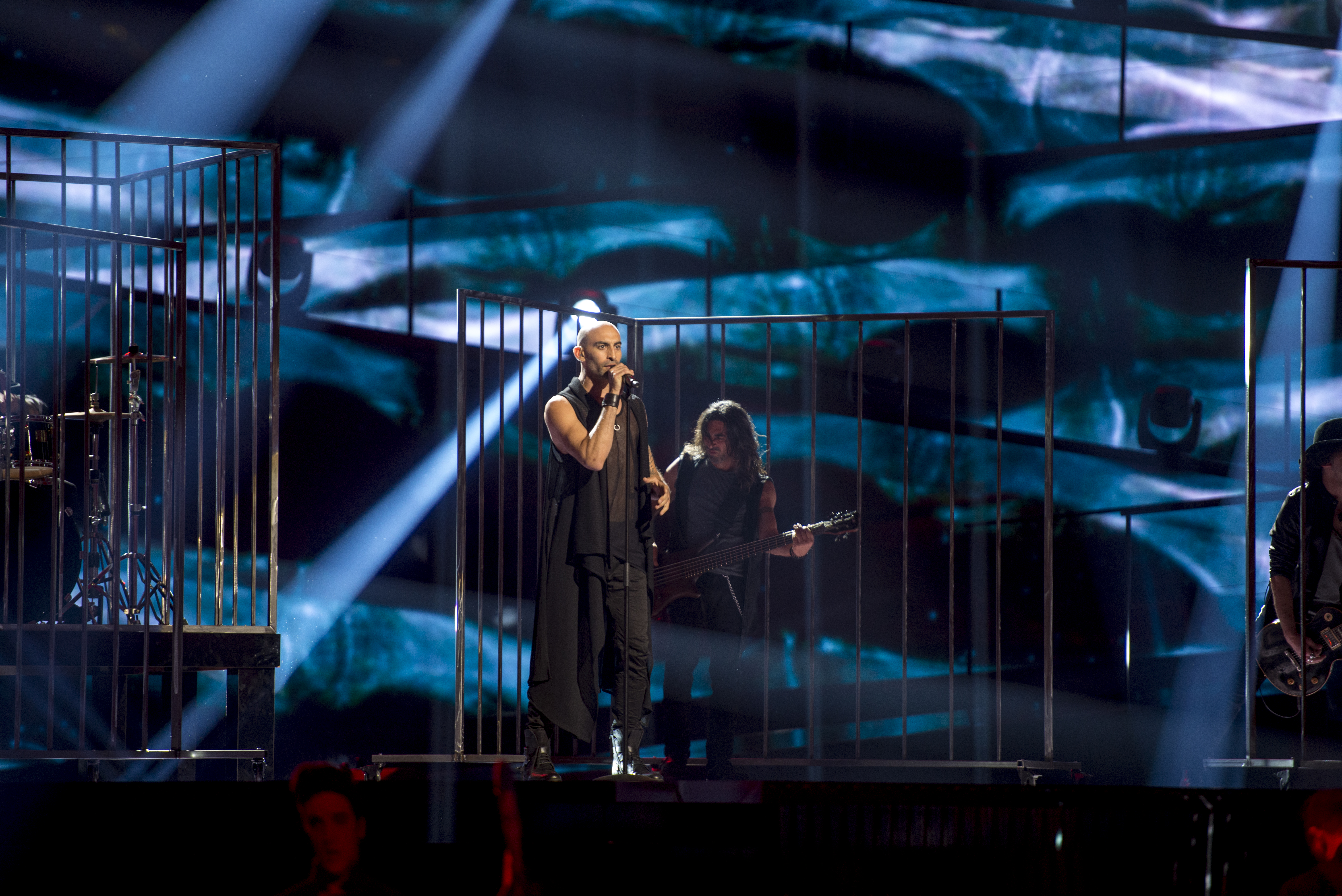 Minus One representing Cyprus with the song "Alter Ego" during a rehearsal before the first semi final of the Eurovision Song Contest 2016 in Stockholm. (Help translate this text)